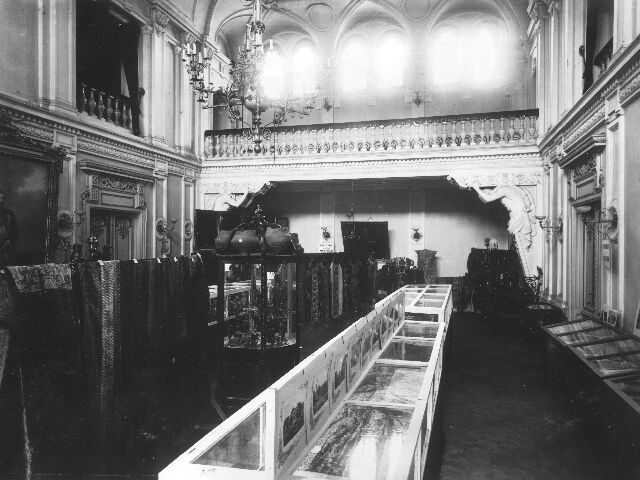 Kalisz, Poland, the city hall, exhibition, 1900